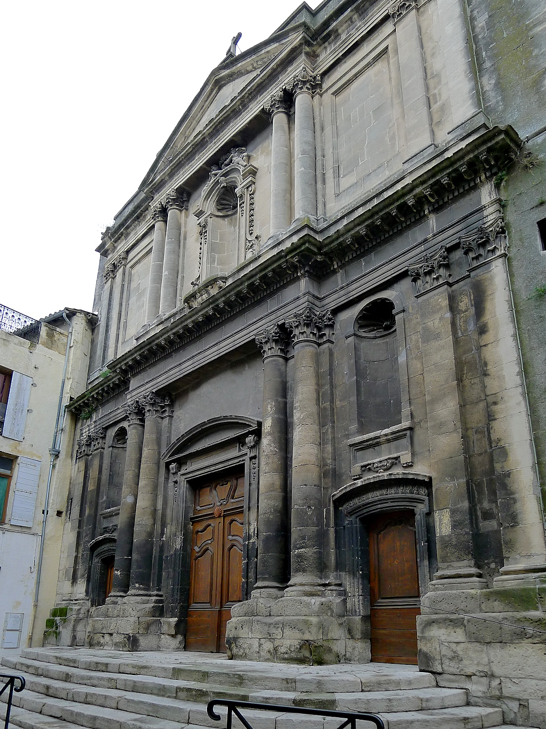 Saint-Julien church - Arles